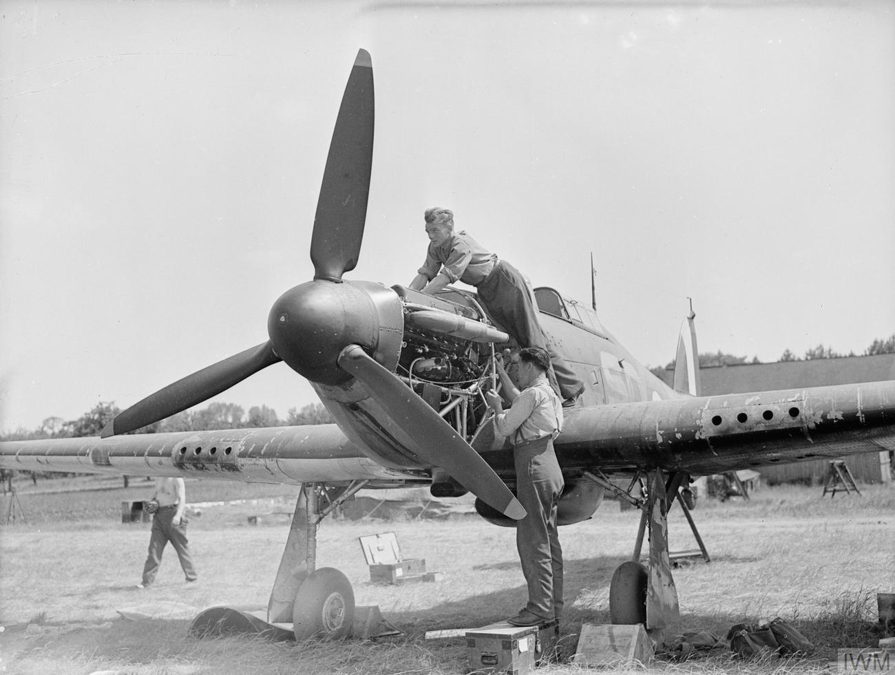 Royal Air Force France, 1939-1940. Mechanics servicing the engine of a Hawker Hurricane Mark I of No. 501 Squadron RAF at No. 1 Repair Centre, Reims-Champagne.